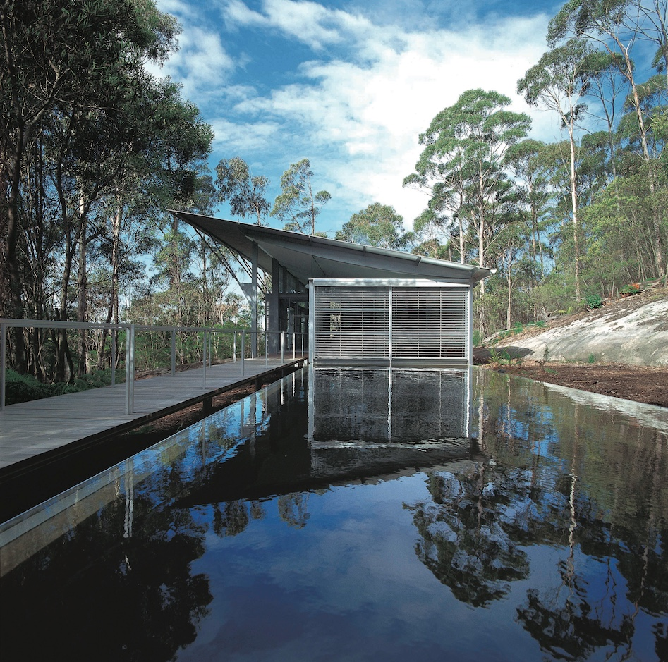 Simpson Lee House view